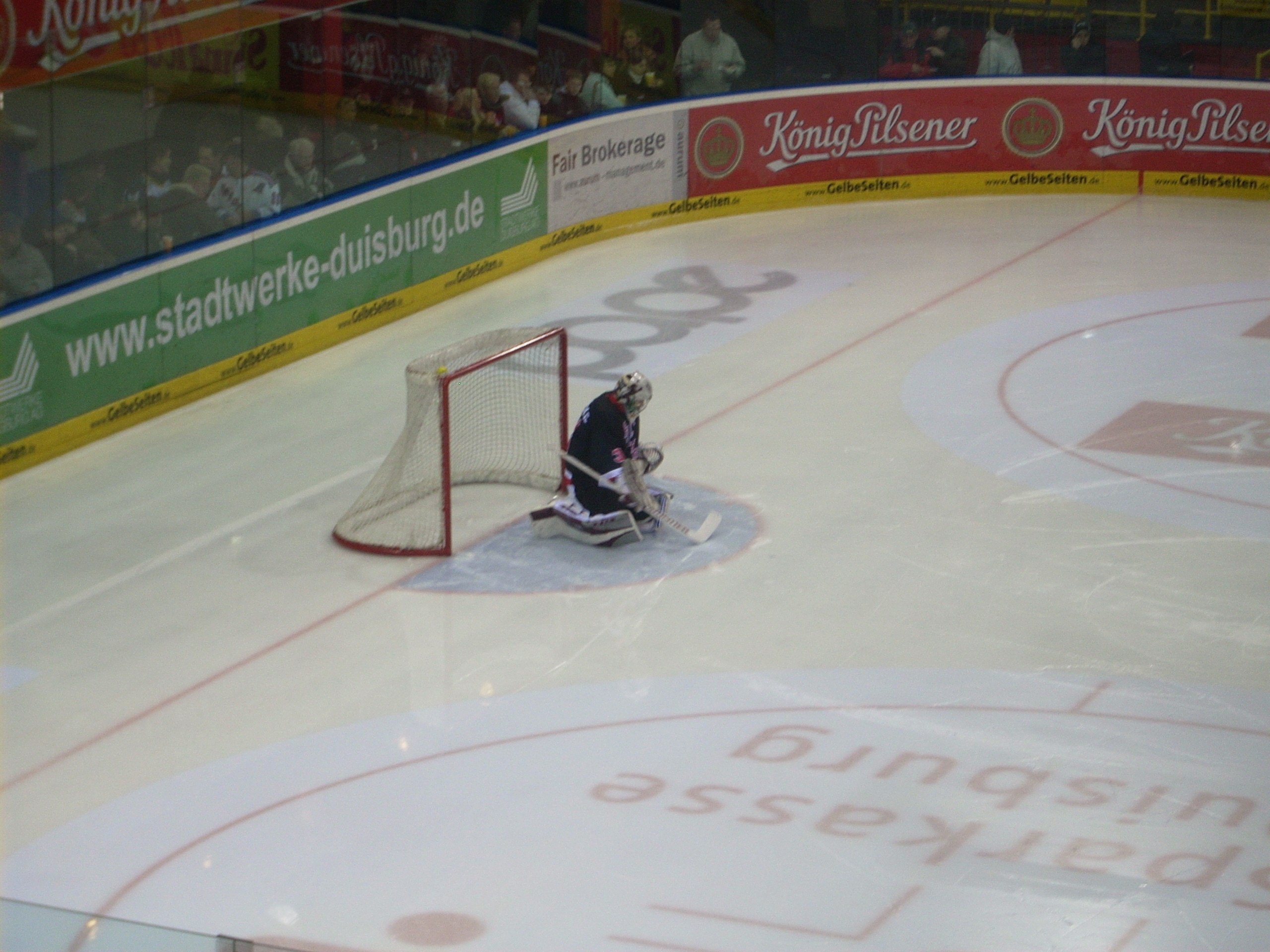 Edgars Masaļskis, Torhüter der Füchse Duisburg und der lettischen Eishockey Nationalmannschaft.